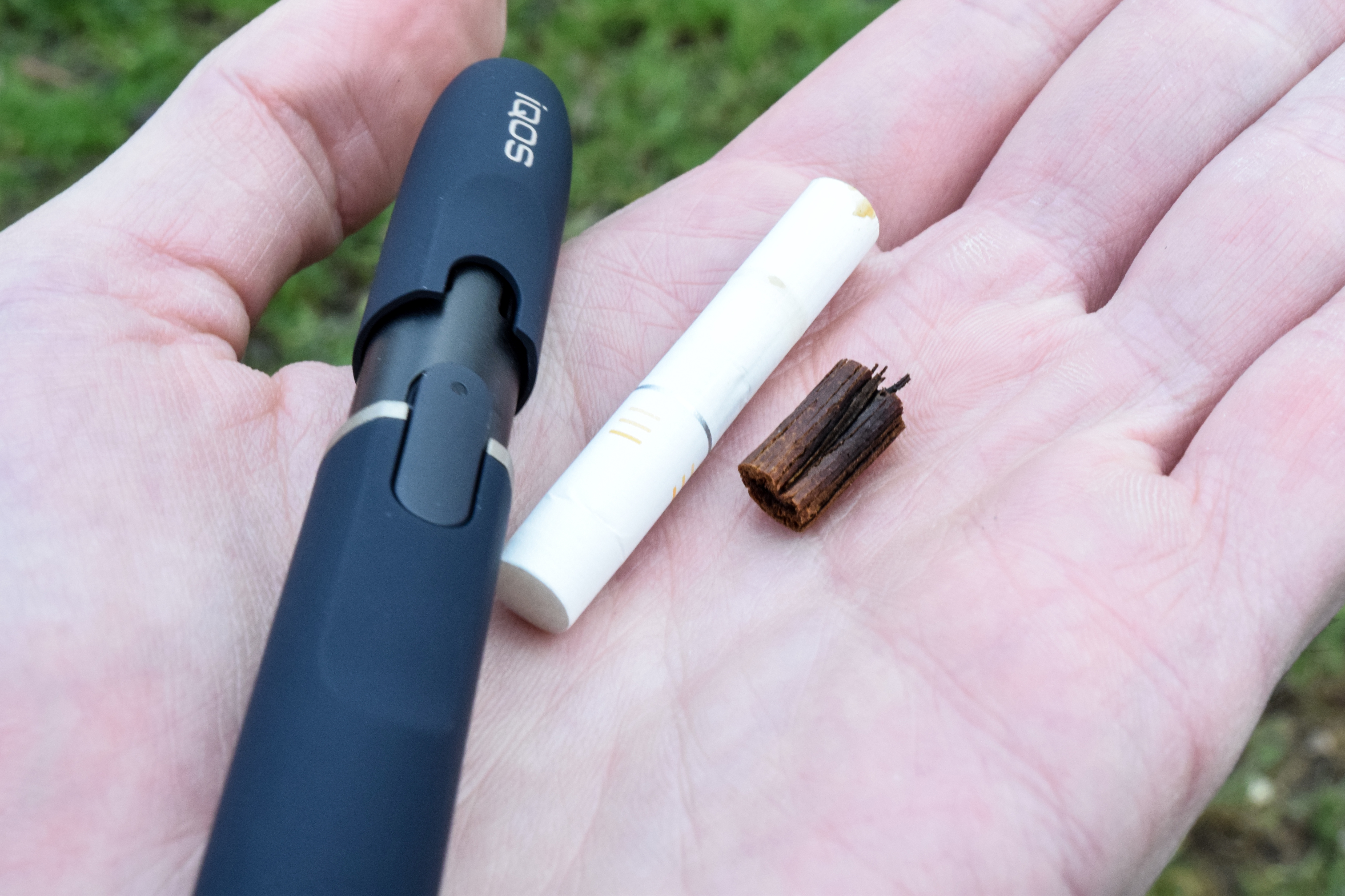 Philip Morris IQOS Hybrid - Burnt out tobacco from IQOS Heet stick